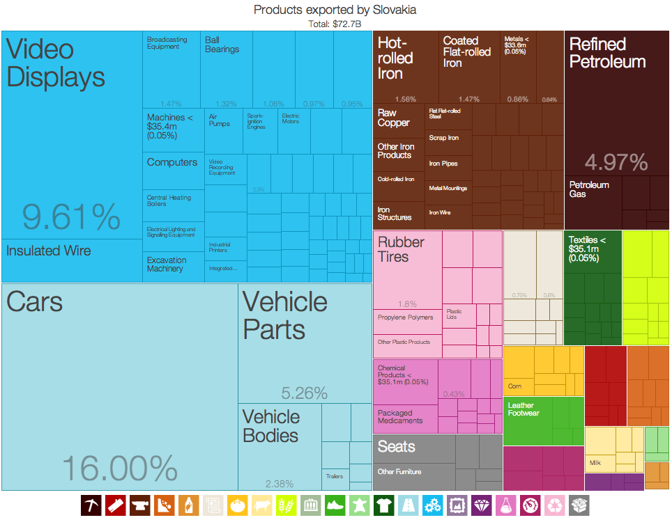 Slovakia Export Treemap from MIT Harvard Economic Complexity Observatory